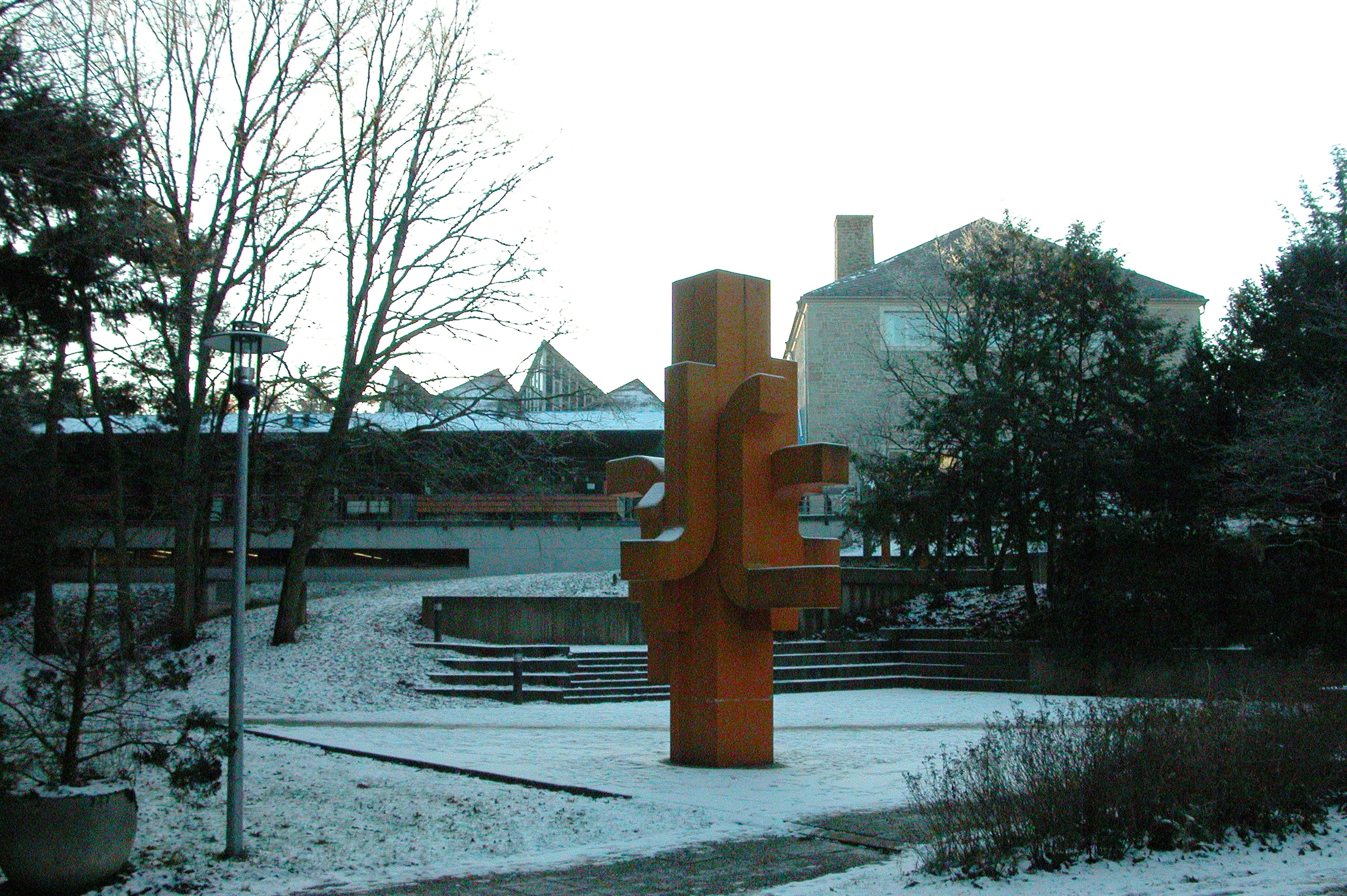 University of applied sciences Trier, cafeteria building